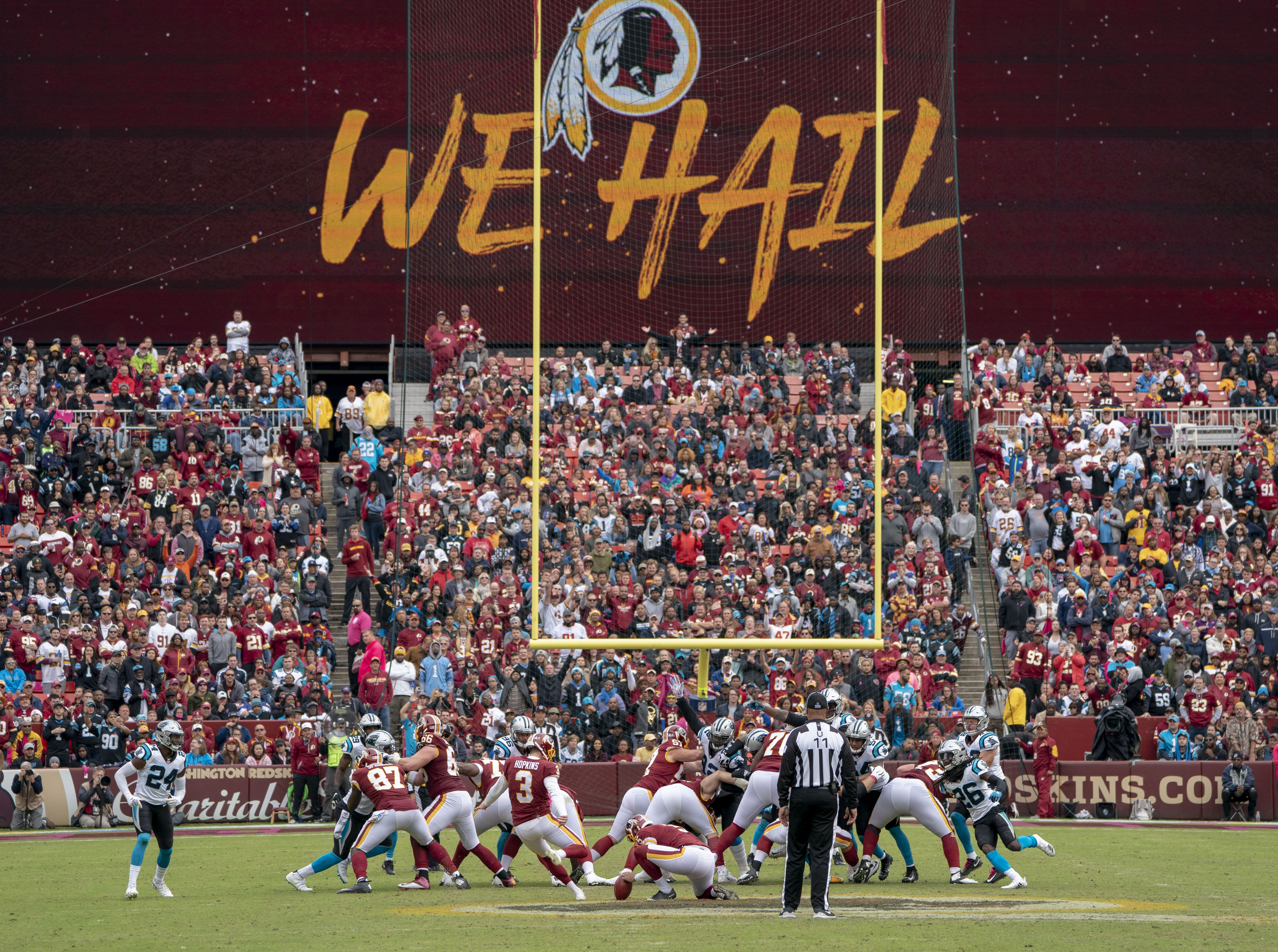 Dustin Hopkins of the Washington Redskins kicks a field goal against the Carolina Panthers during a 2018 game at FedEx Field